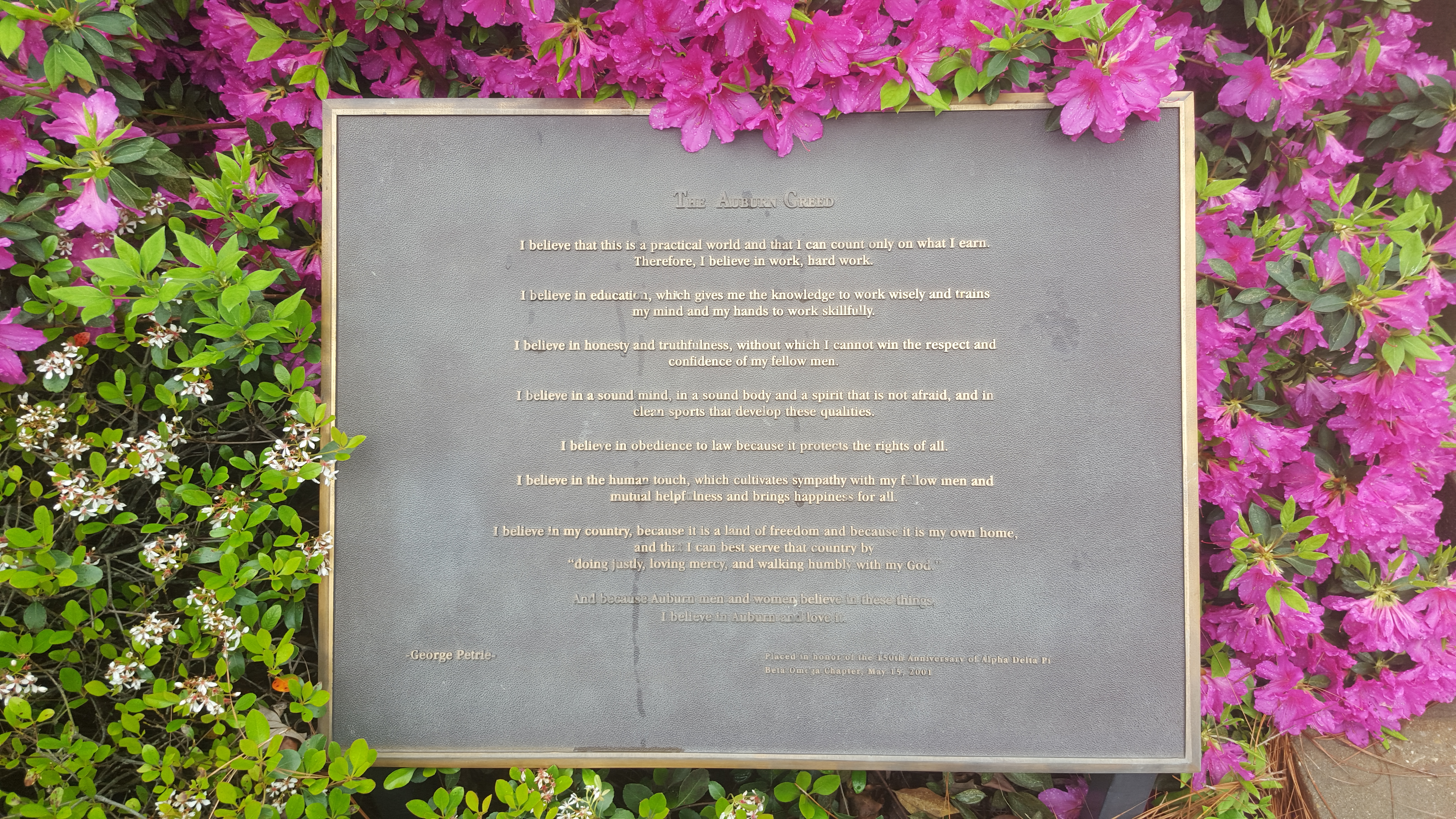 Placard with the full text of the Auburn Creed outside of Petrie Hall on the Auburn University campus